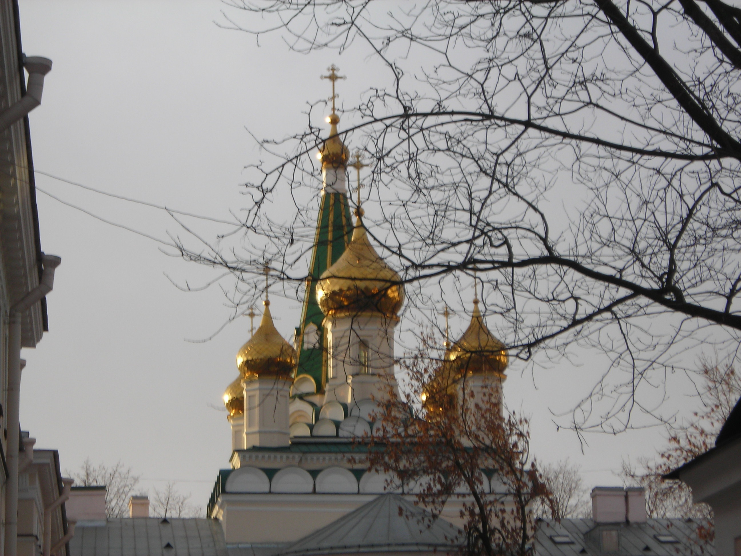 Saint Petersburg (Russia), Moskovsky Avenue.